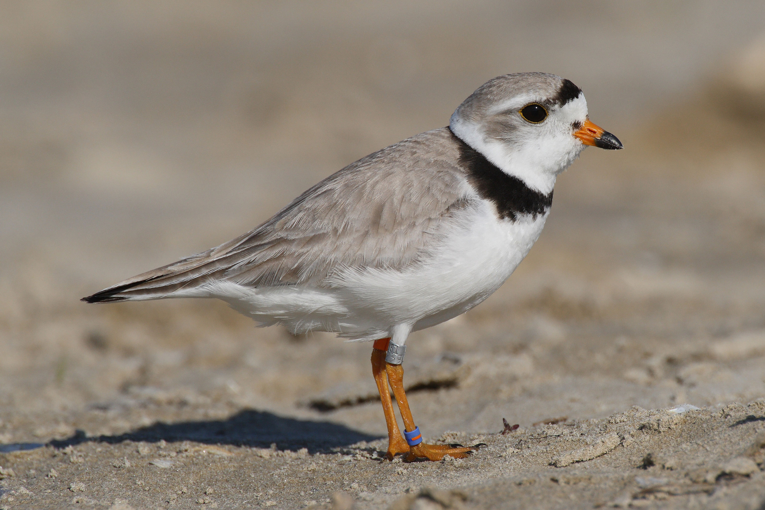 Piping Plover (Charadrius melodus) -- Sauble Beach, Ontario, Canada -- 2008 July